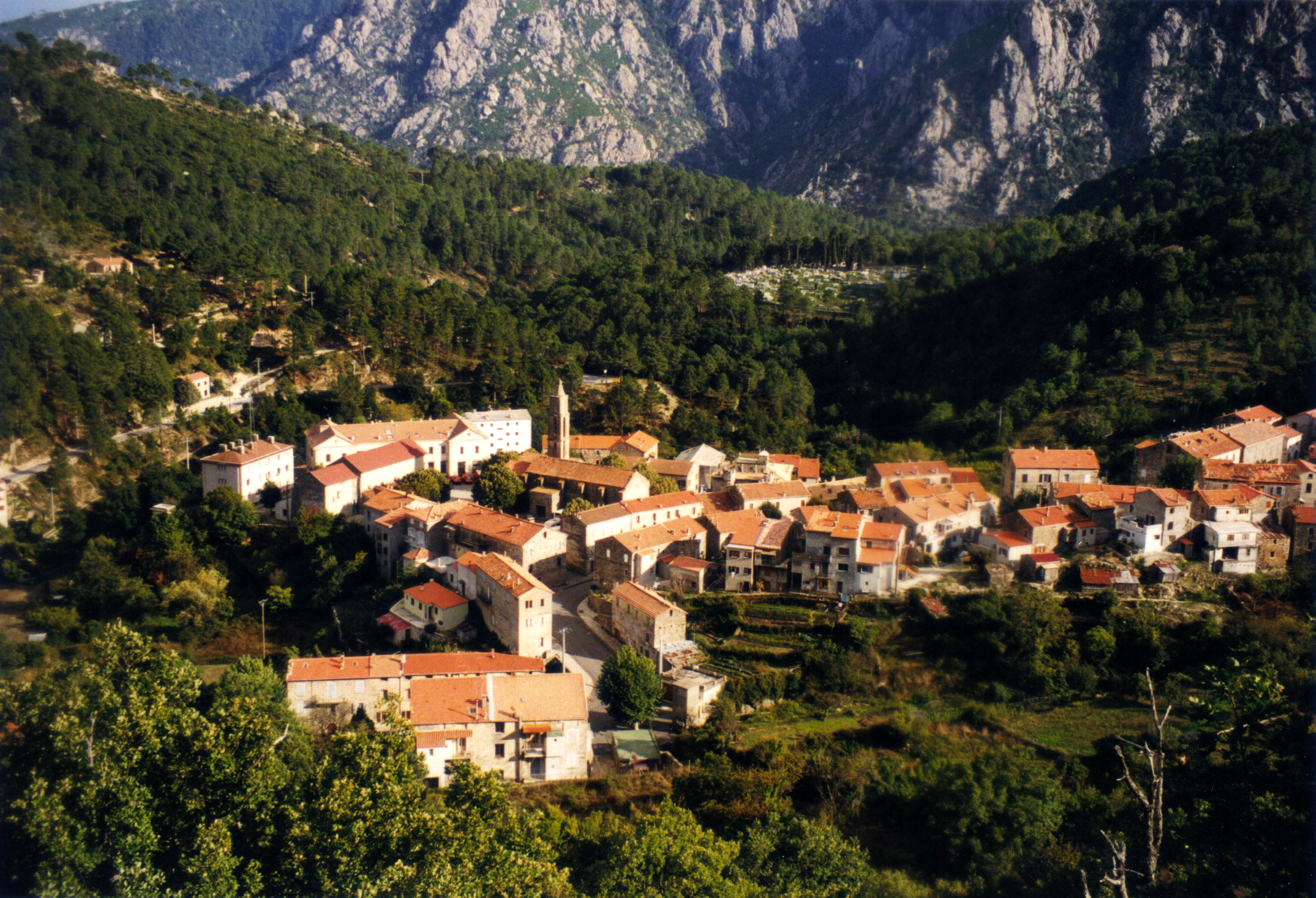 The town of Ghisoni, Corse, France.